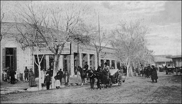 Kirpichnaya street in Ashgabat in 1913